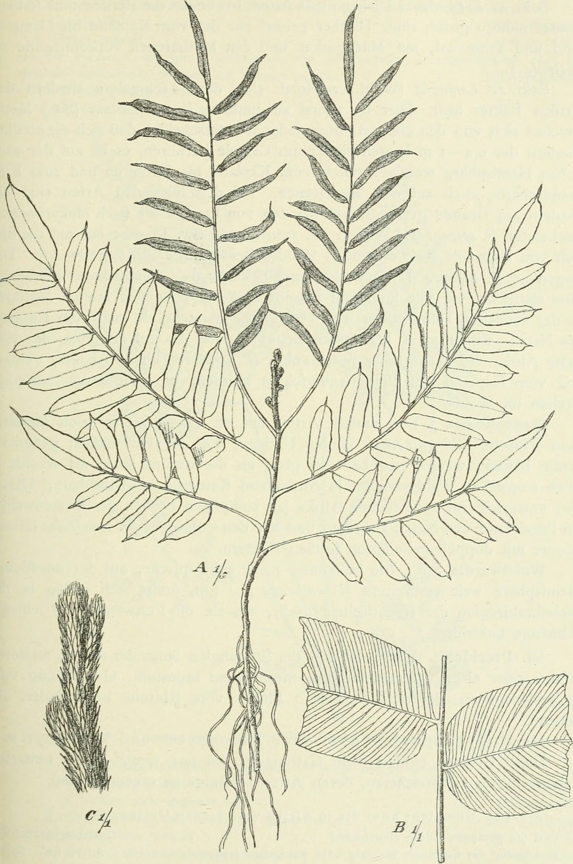 Title: Die Pflanzenwelt Afrikas, insbesondere seiner tropischen Gebiete : Grundzge der Pflanzenverbreitung im Afrika und die Charakterpflanzen Afrikas Year: 1910 (1910s) Authors: Engler, Adolf, 1844-1930 Subjects: Botany Publisher: Leipzig : W. Engelman Text Appearing Before Image: Filicales. — Polypodiaceae. 33 Text Appearing After Image: Fig. 28. Stenochlaena guineensis (Kuhn; Underwood. A ganze Pflanze; B Stück des sterilen Blattes; C Ende des kletternden Sprosses. Engler, Charakterpflanzen Afrikas. I. -i